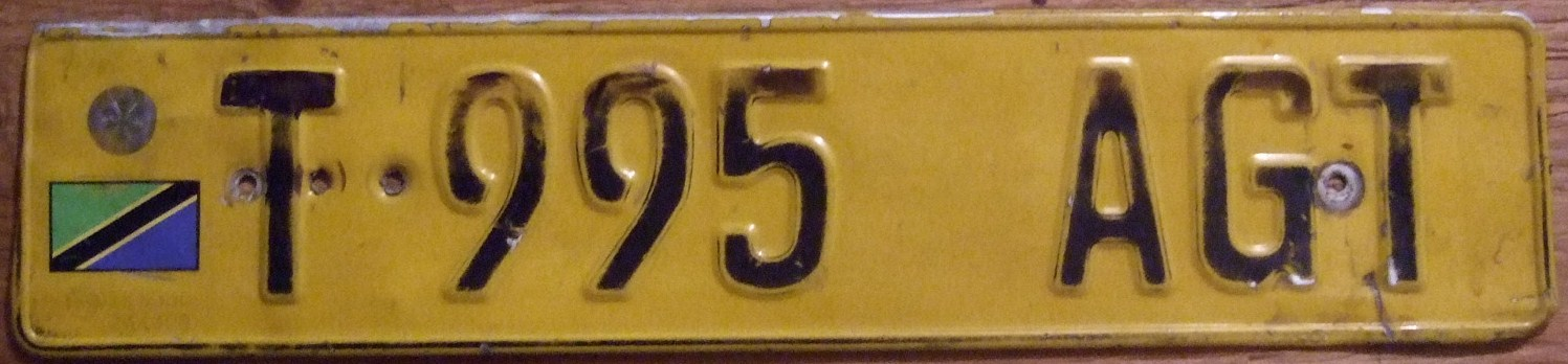 Tanzanian license plate